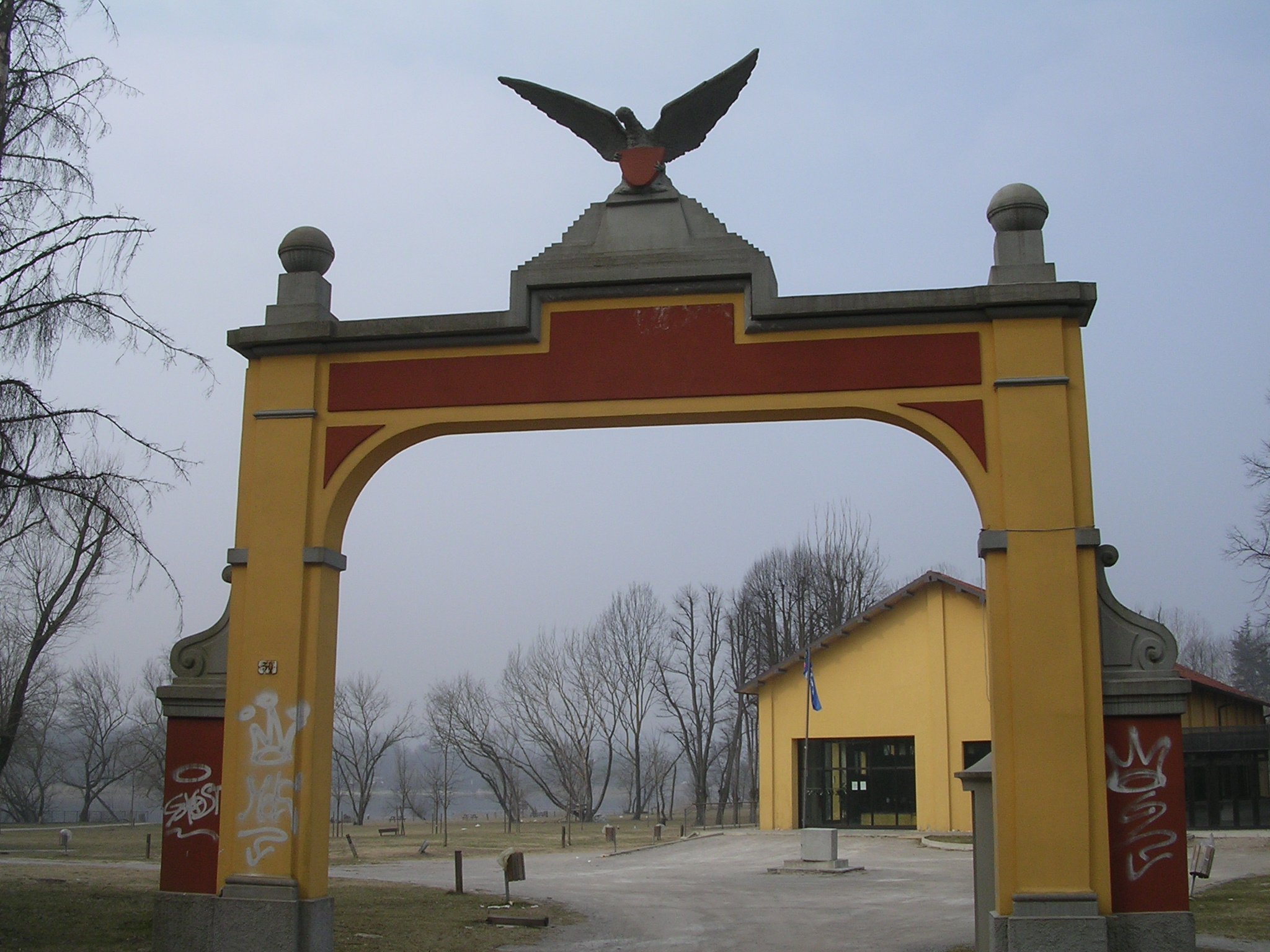 Sant'Anna Seaplane base. It was a seaplane base till World War II. It is at Sant'Anna (in Sesto Calende)